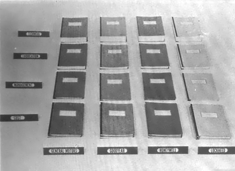 These are four proposals for CAPTOR mine, received from General Motors, Goodyear, Honeywell, and Lockheed Missiles and Space respectively (shown here left to right), sorted in four categories: 1) cost, 2) management, 3) fabrication, and 4) technical. This photo was taken before the best and final offers were received and the proposals were reevaluated.